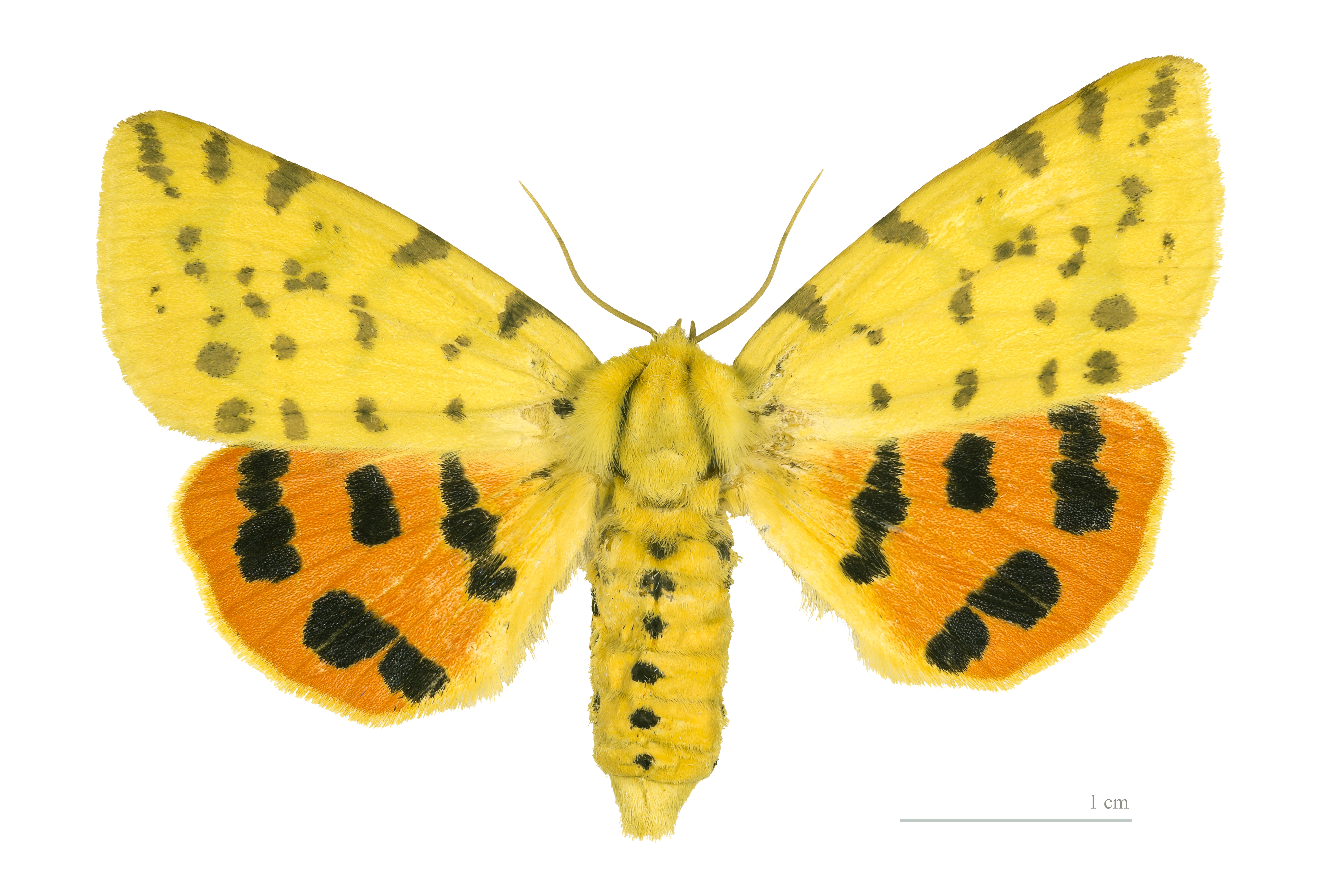 Purple Tiger ♂ - Dorsal side Locality: Fonsorbes, Hautes-Garonne, France